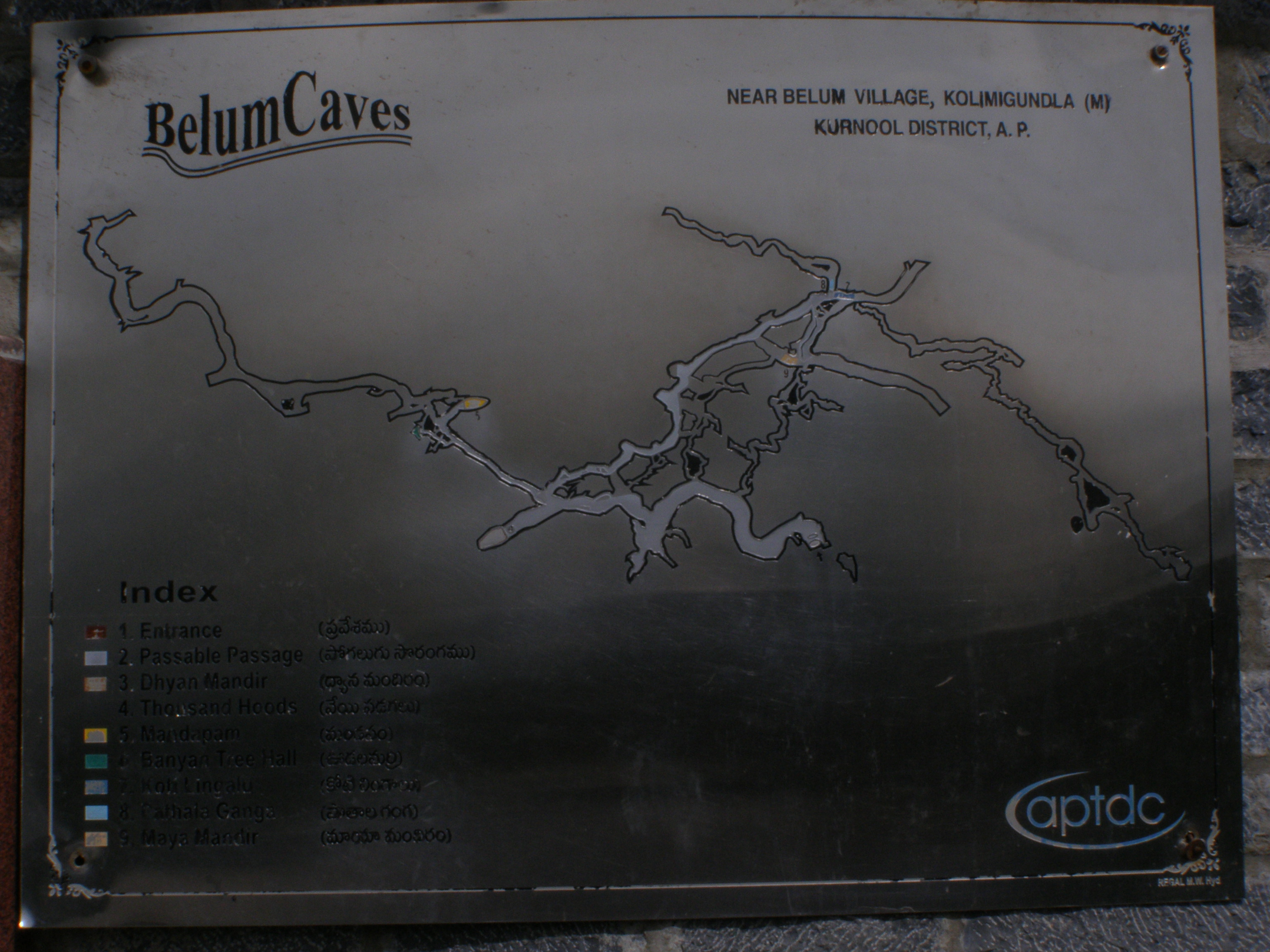 Sign board near the entrance of Belum Cave with map of cave engraved on it.